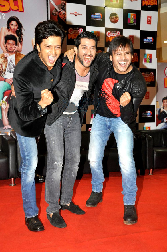 Riteish Deshmukh, Aftab Shivdasani & Vivek Oberoi at audio release of 'Grand Masti' at R-City Mall